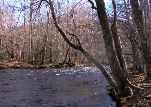 The Oconaluftee River in the Great Smoky Mountains of North Carolina. The river was considered sacred by the Cherokee.